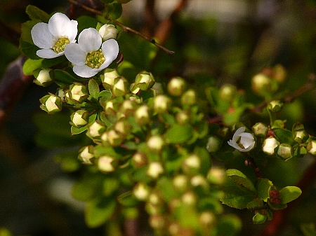 Spiraea thunbergii in spring time Japan